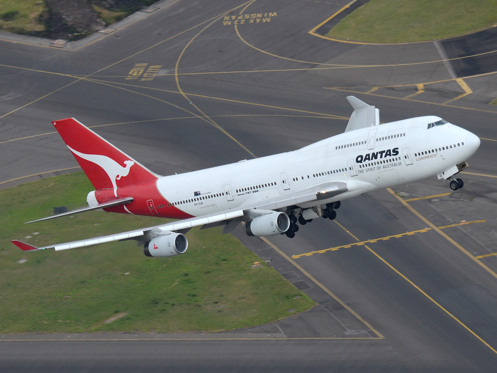 VH-OJA taking off from Sydney on its final flight